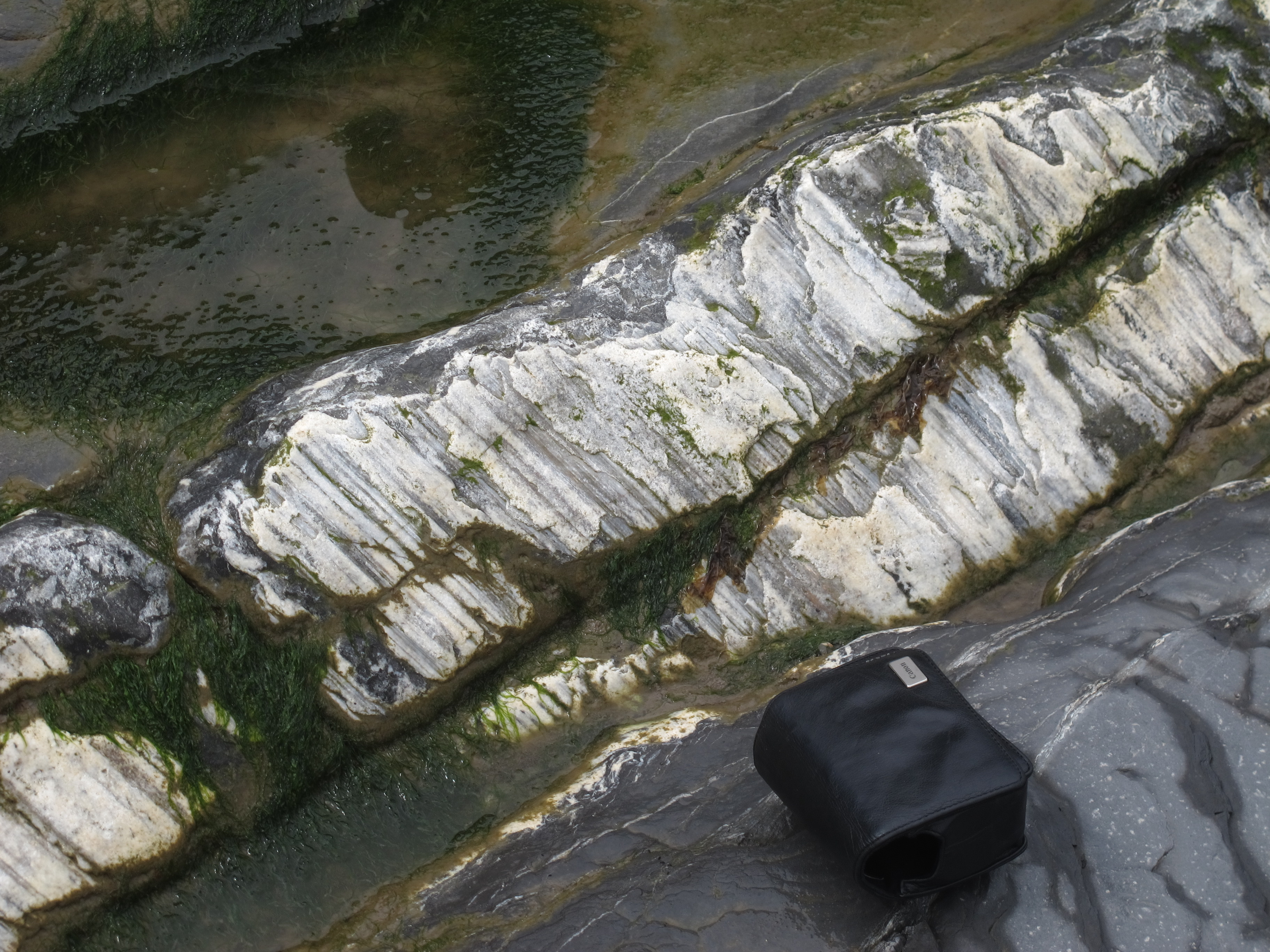 Calcite slickenfibres along the surface of a normal fault East of Kilve, Somerset. Length of camera case is 12 cm.